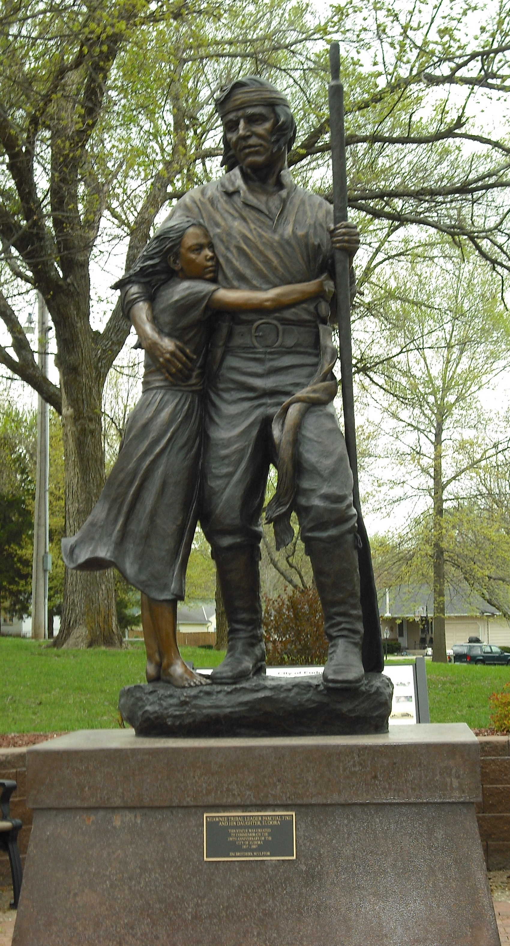 Pascal and Eudora Fish statue in Eudora City Park in Eudora, Kansas. Pascal lived in the Eudora area when the town founders arrived. The town is named for his daughter, Eudora.